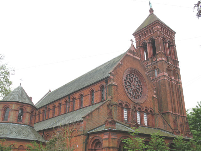 Former parish church of All Saints, Bute Avenue, Petersham, Richmond-upon-Thames, seen from the north. This Romanesque revival church was designed by J Kelly and completed in 1908. Regular services ceased by 1962, though it continued to be used for weddings until 1981. All church use ceased by 1986. It was sold around 1996 for conversion to a single dwelling, All Saints House.